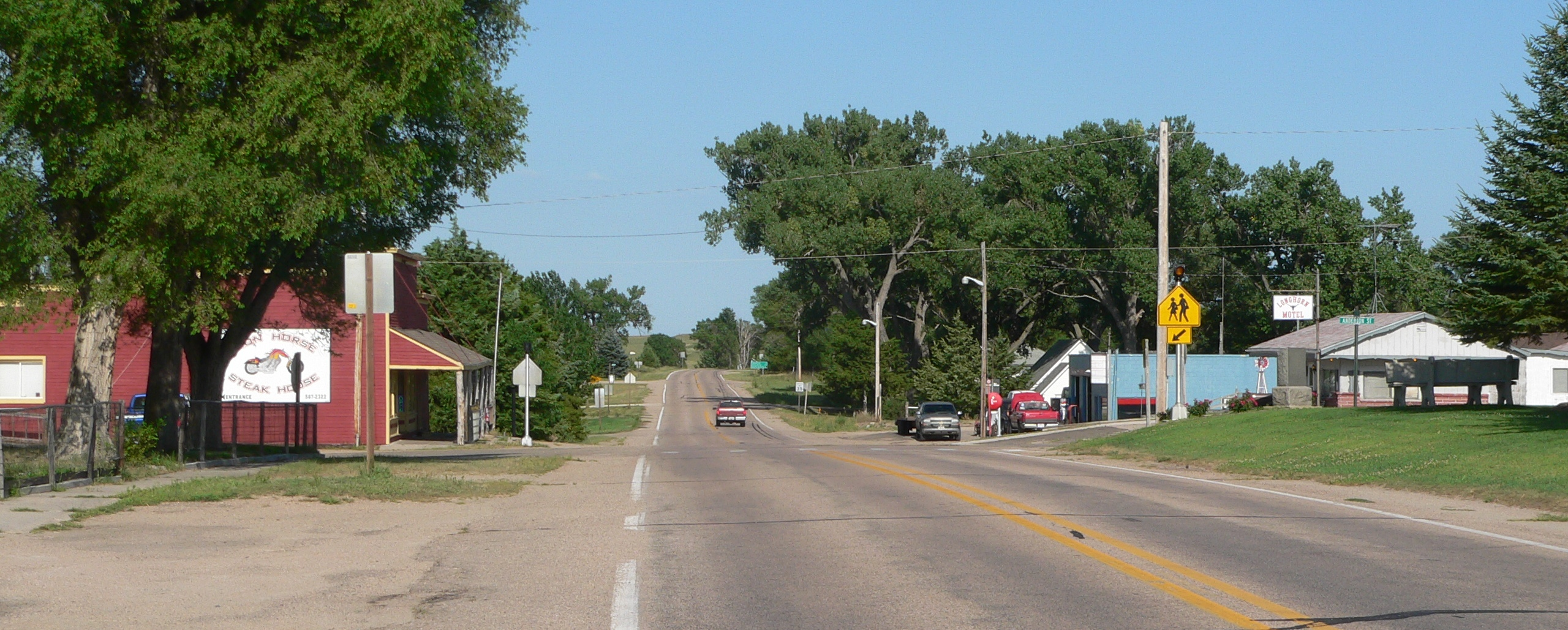 Tryon, Nebraska: looking eastward along Nebraska Highway 92/Nebraska Highway 97.